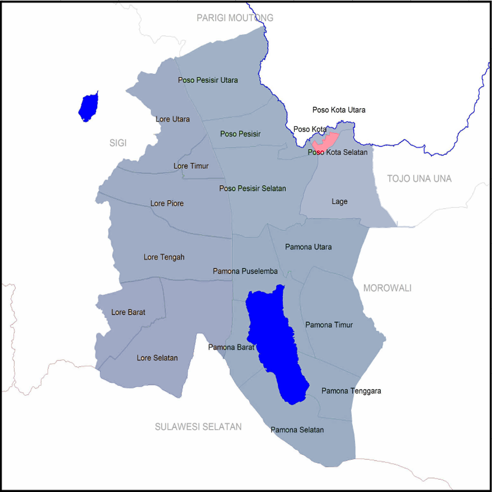 This is the administrative map of South Poso Town District, Poso Regency, Indonesia.